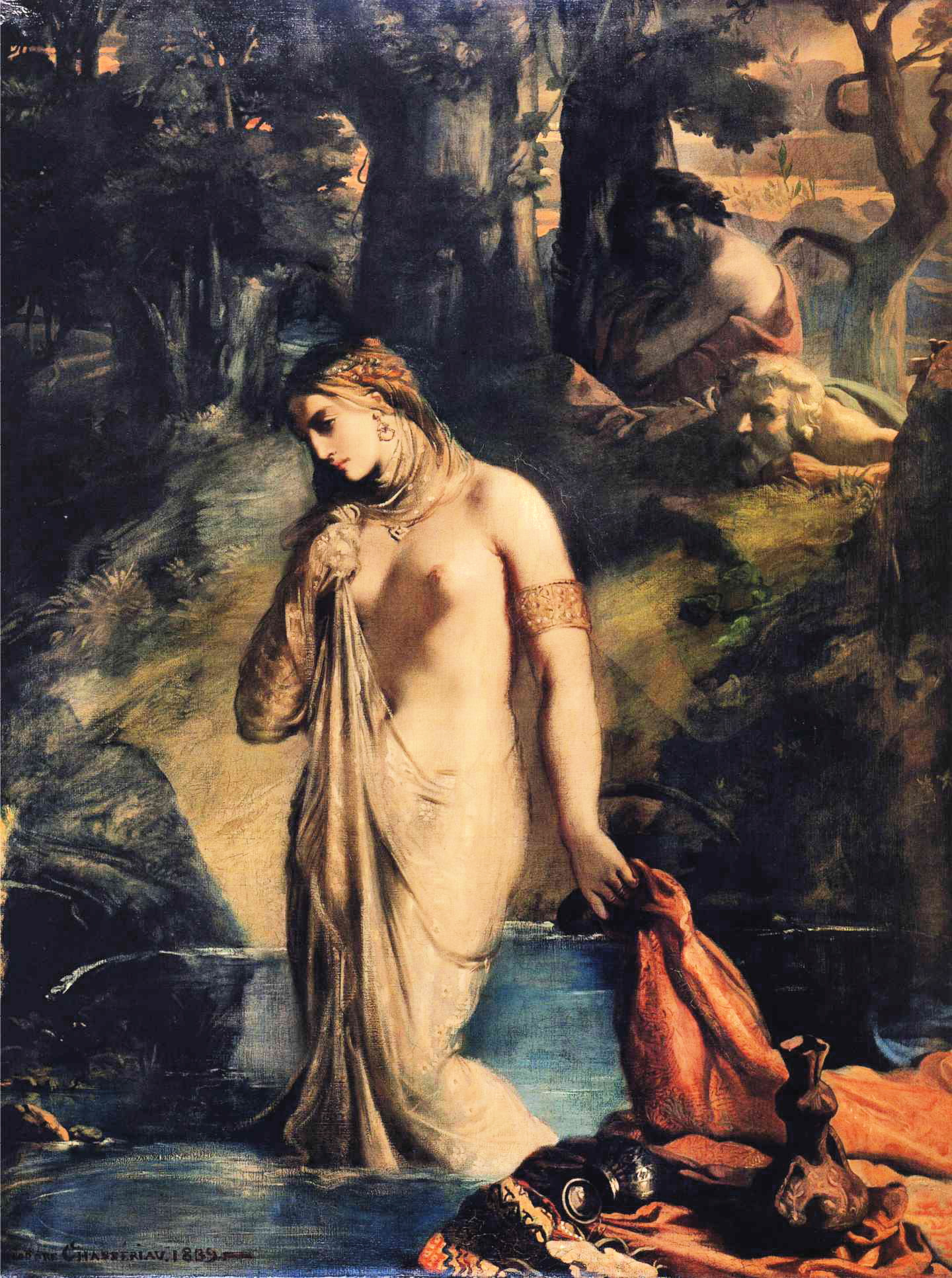 Susanna at her bath